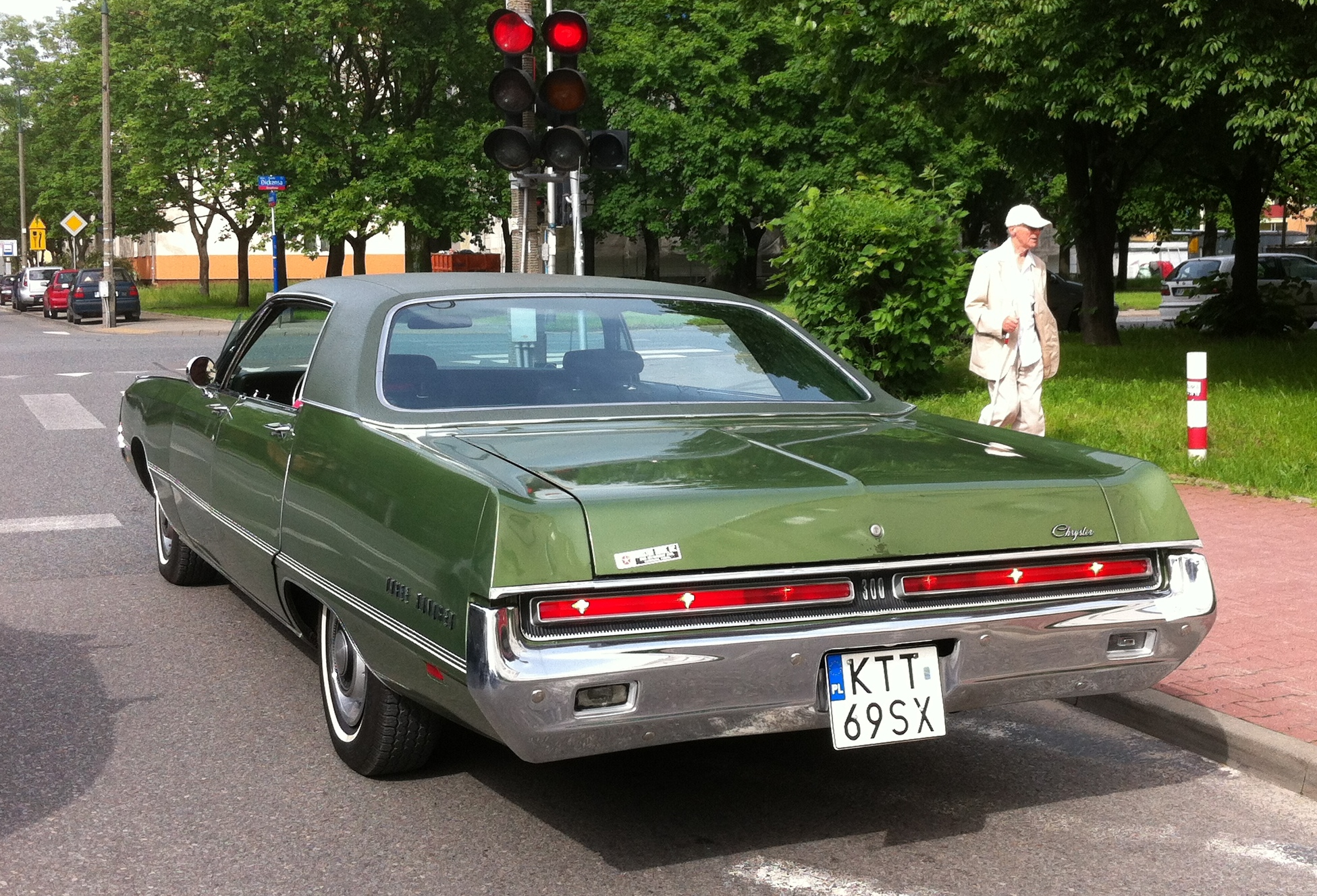 1969 Chrysler 300 four-door hardtop (no B-pillar), finished in green with a green vinyl covered roof. Picture taken while this vintage cruiser was on Urbanistow street at the intersection with Dickensa, Warsaw, Poland.